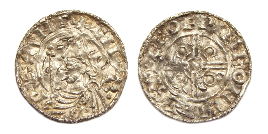 England, AR penny pointed helmet type Canute the Great - Chichester mint. Moneyer: Leofwine. Struck between 1024-1030. Obverse: Helmeted bust left with sceptre breaking linear circle at bottom. Legend: +CNVT REX ANG. Reverse: Short voided cross with pellet and annulet centre. Pellets in annulet in each angle, all within linear circle. Legend: +LEOFPINE ON CICEST.